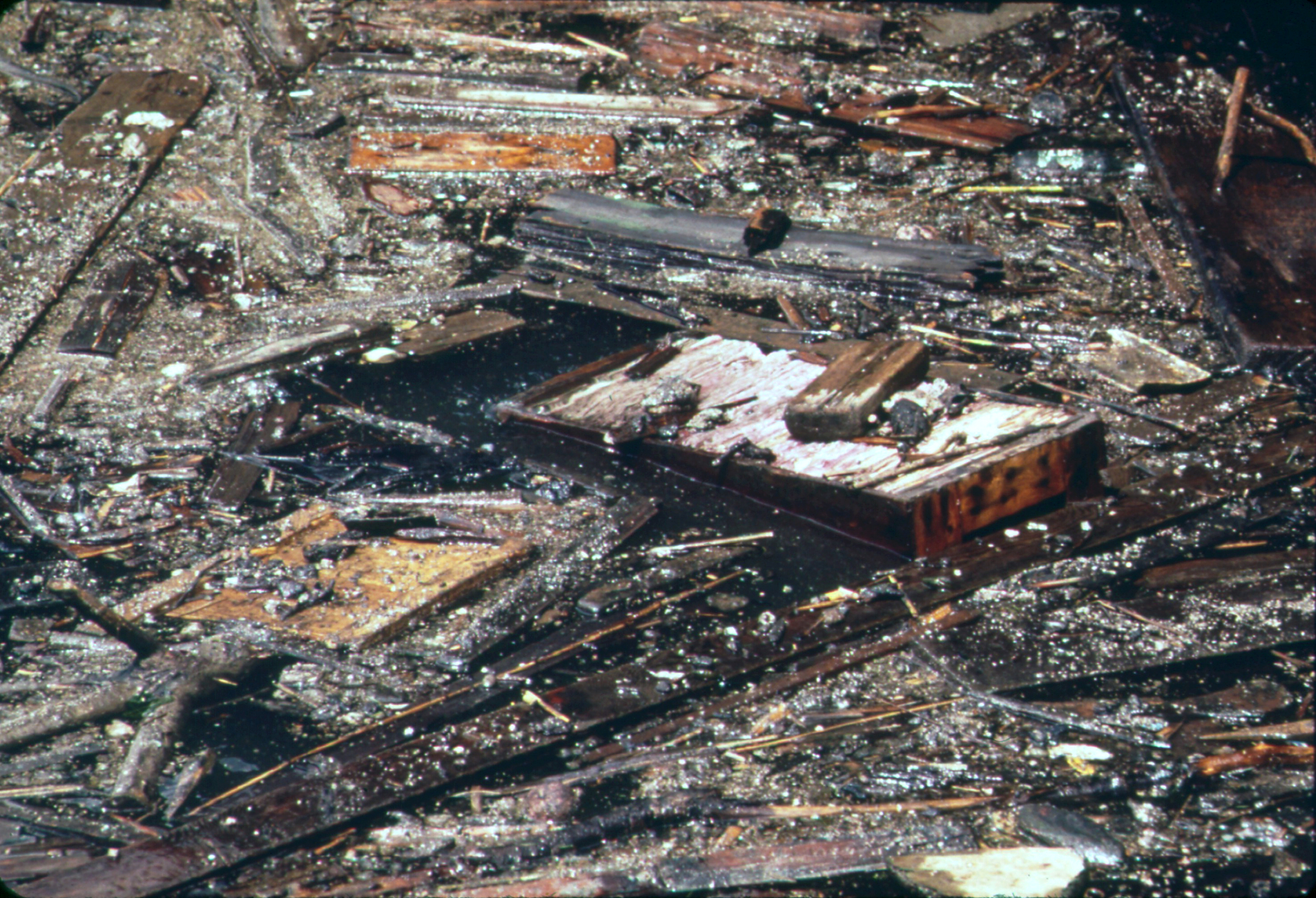 Changed contrast and color of original image for a more accurate representation.